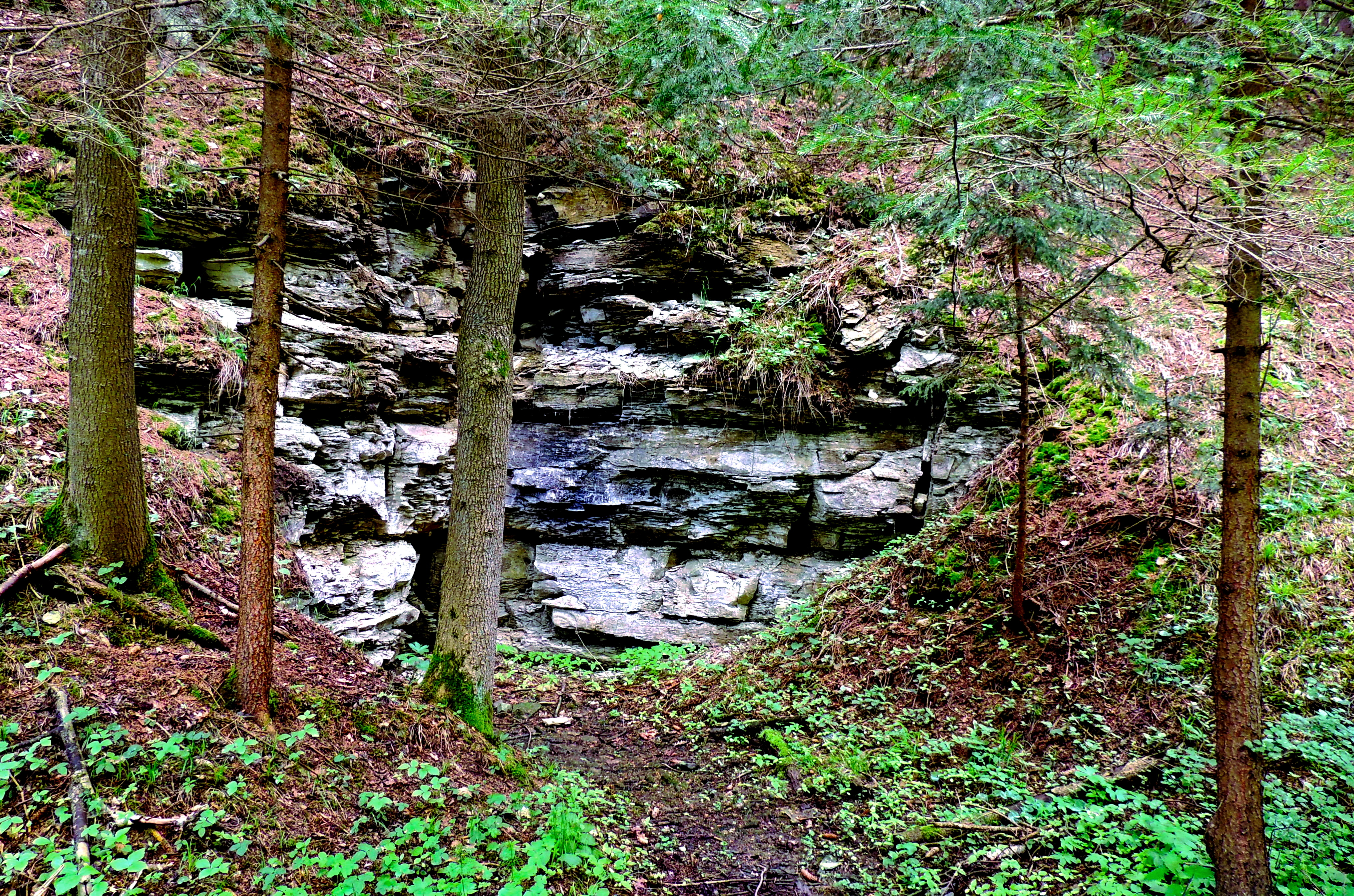 The nature reserve and locality of European importance with named Valley of Anny. An important part of the nature reserve lies in the valley with the local name "near st. Anna" (after St. Anne's Chapel in the valley). Exposed layers of rocks in the valley slope with a spring of water. Photo location - Czechia, Pardubice Region, Skuteč town.